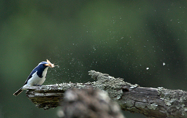 Ultramarine Flycatcher Ficedula superciliaris in Kullu District of Himachal Pradesh, India.